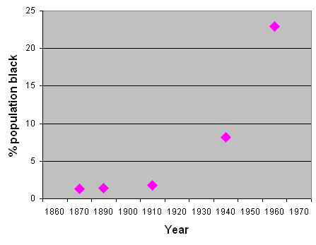 Graph depicting percentage of Chicago's population that was African American, by year.